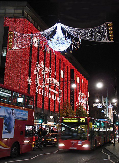 Debenhams, Oxford Street The Slogan 'Christmas Designed by Debenhams' really underlines how commercialised the Christmas period has become. The days of mangers, kings and shepherds in store window displays are long gone. Even on a Sunday there are lots of buses along Oxford Street.